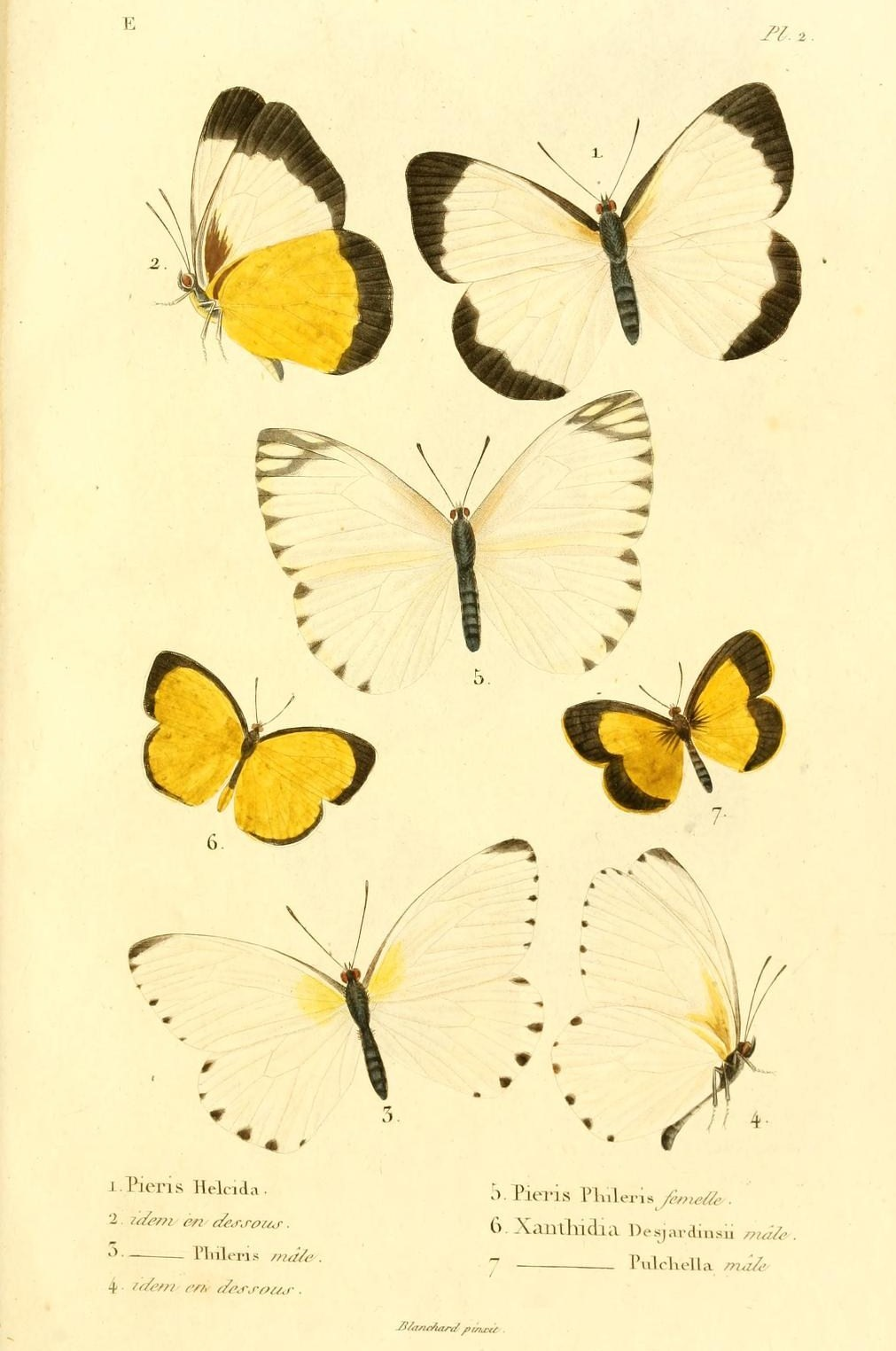 Boisduval, J.B.A. (1833): Mémoire sur les Lépidoptères de Madagascar, Bourbon et Maurice. Nouvelles Annales du Muséum d’Histoire Naturelle. Paris 2:149-270. Plate 2 figure 1 Pieris helcida synonym for Belenois helcida(Boisduval, 1833) figure 2 Pieris helcida synonym for Belenois helcida(Boisduval, 1833) underside figure 3 Pieris phileris synonym for Mylothris phileris(Boisduval, 1833) male figure 4 Pieris phileris synonym for Mylothris phileris(Boisduval, 1833) male underside figure 5 Pieris phileris synonym for Mylothris phileris(Boisduval, 1833) female figure 6 Xanthidia desjardinsii synonym for Eurema desjardinsii (Boisduval, 1833) male figure 7 Xanthidia pulchella synonym for Eurema brigitta pulchella (Boisduval, 1833) male